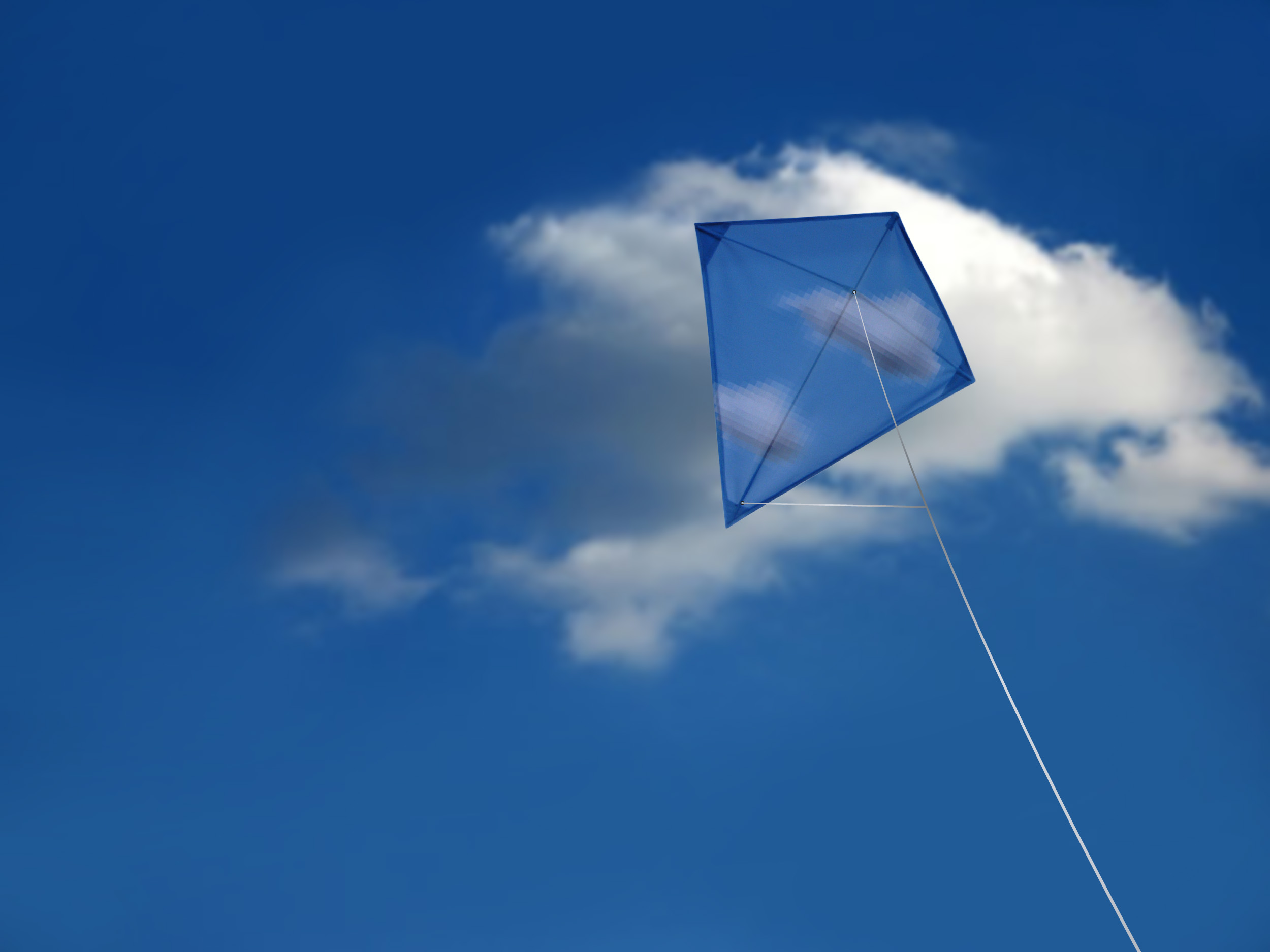 A kite with a small solitary pixelated cloud. Even on a clear day you can now become a professional cloudbuster with the Skite! Fly the Skite high up in the sky and perhaps even cause a little welcome shading down below.